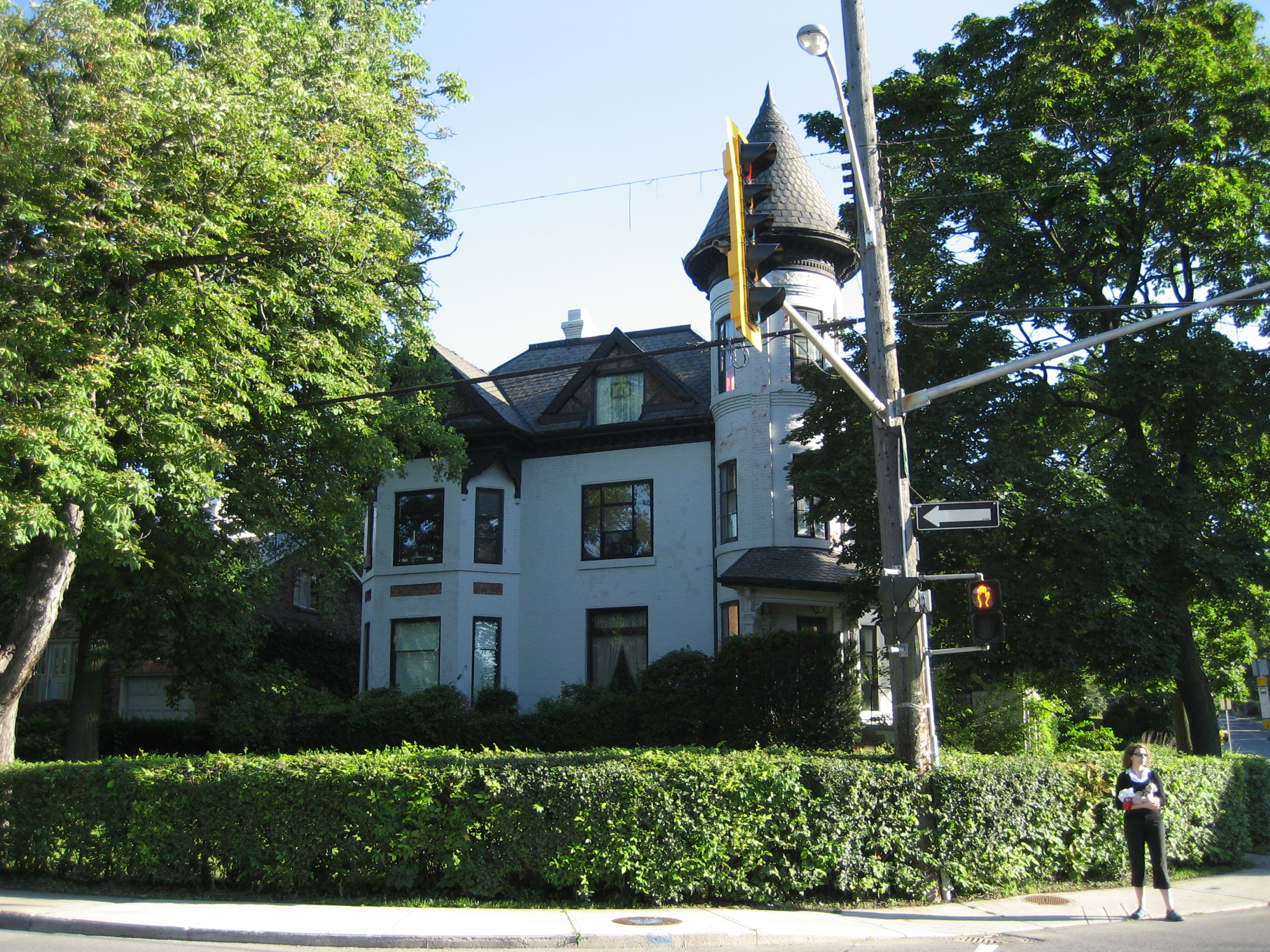 Durand neighbourhood, Queen Street South, Hamilton, Canada.